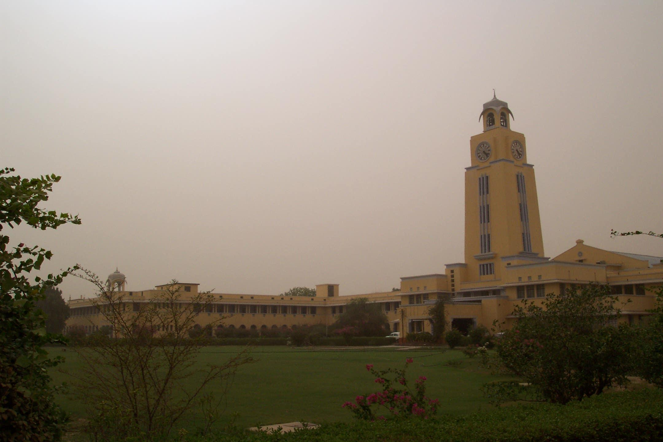 Institute Clocktower, Birla Institute of Technology and Science, Pilani